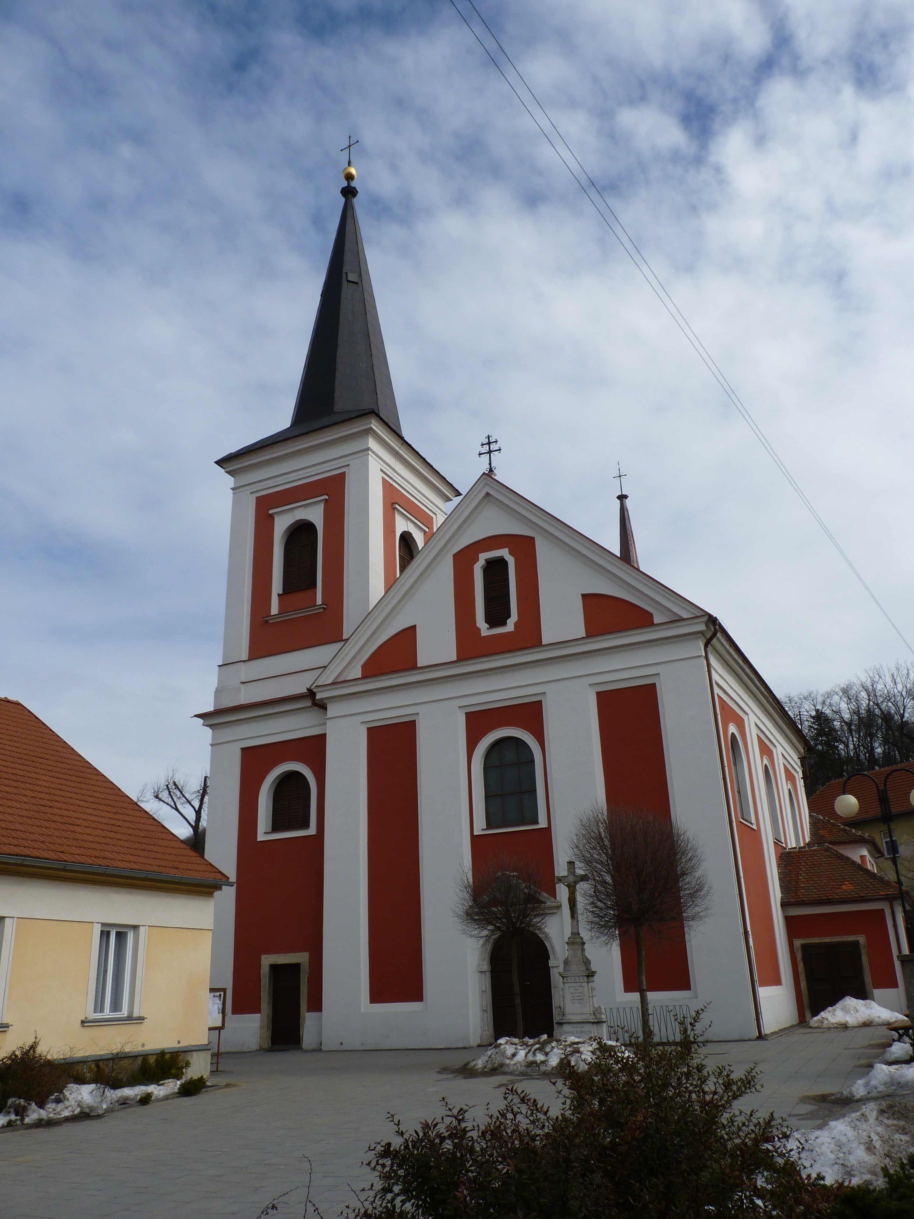 All Saints Church, Rájec-Jestřebí, South Moravian Region, Czech Republic